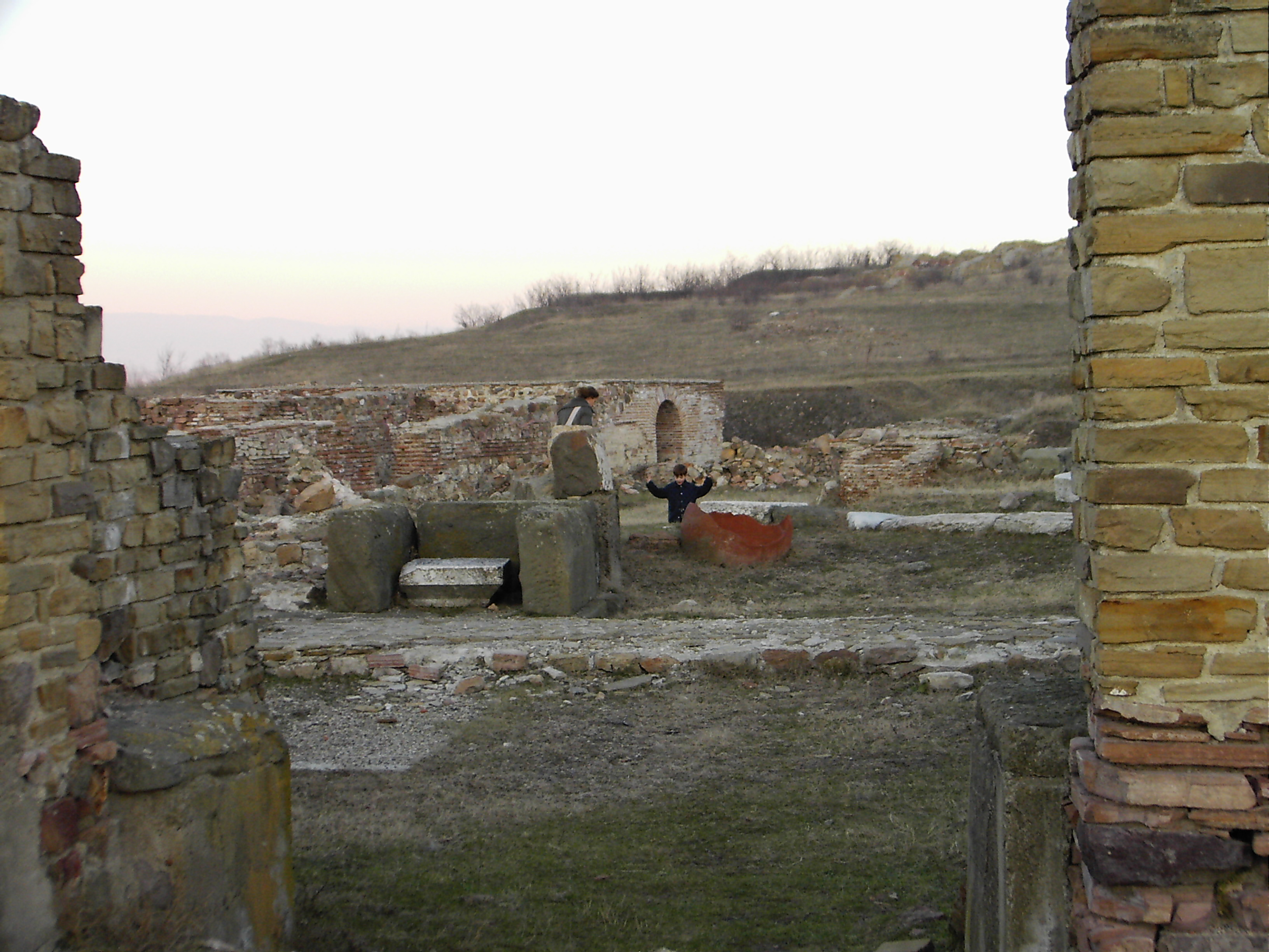 Roman remains in Kabile Bulgaria